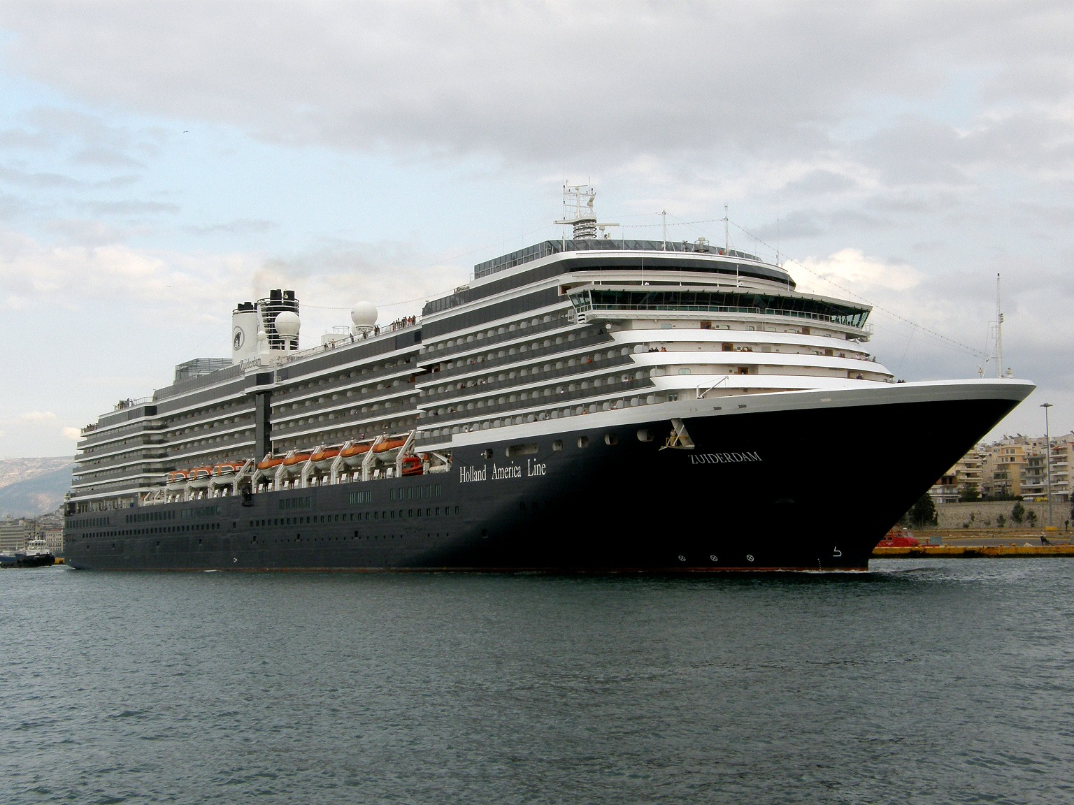 The MS Zuiderdam, PBIG, IMO: 9221279, leaving Piraeus on a cruise to Istanbul.